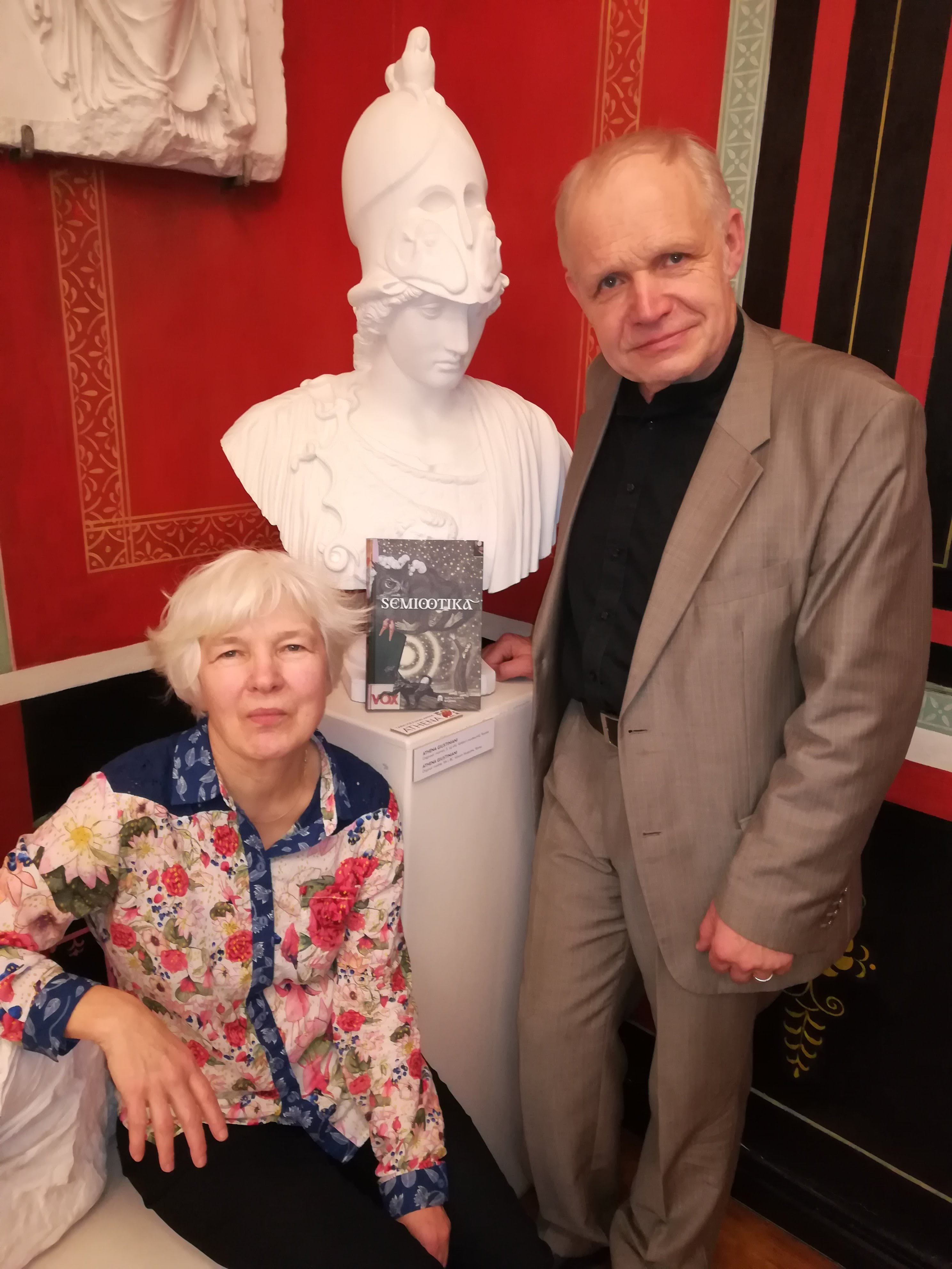 Silvi Salupere and Kalevi Kull at the presentation of the Estonian handbook of semiotics, University of Tartu Art Museum, 20 February 2018